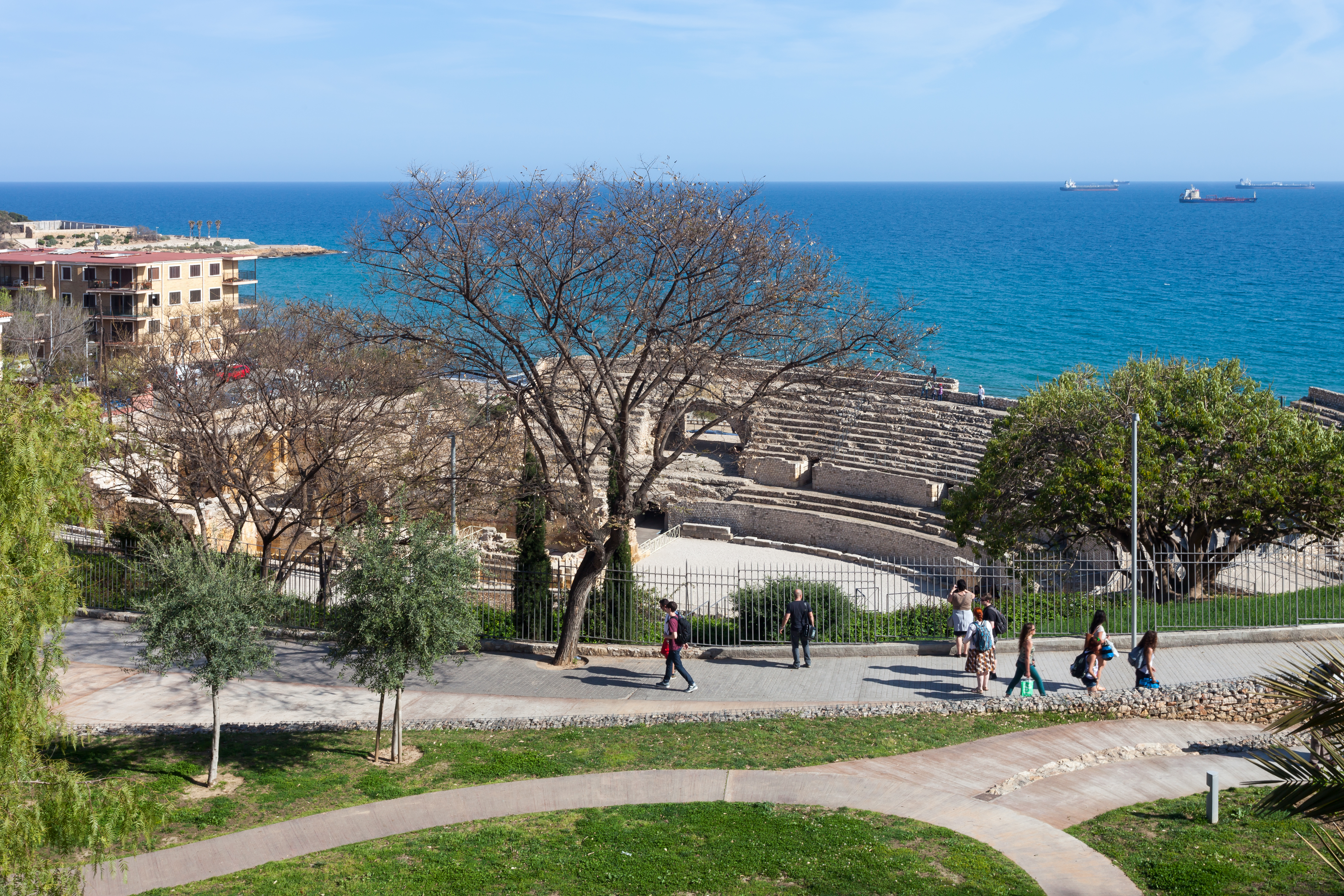 Amphitheater, Tarragona, Catalonia.